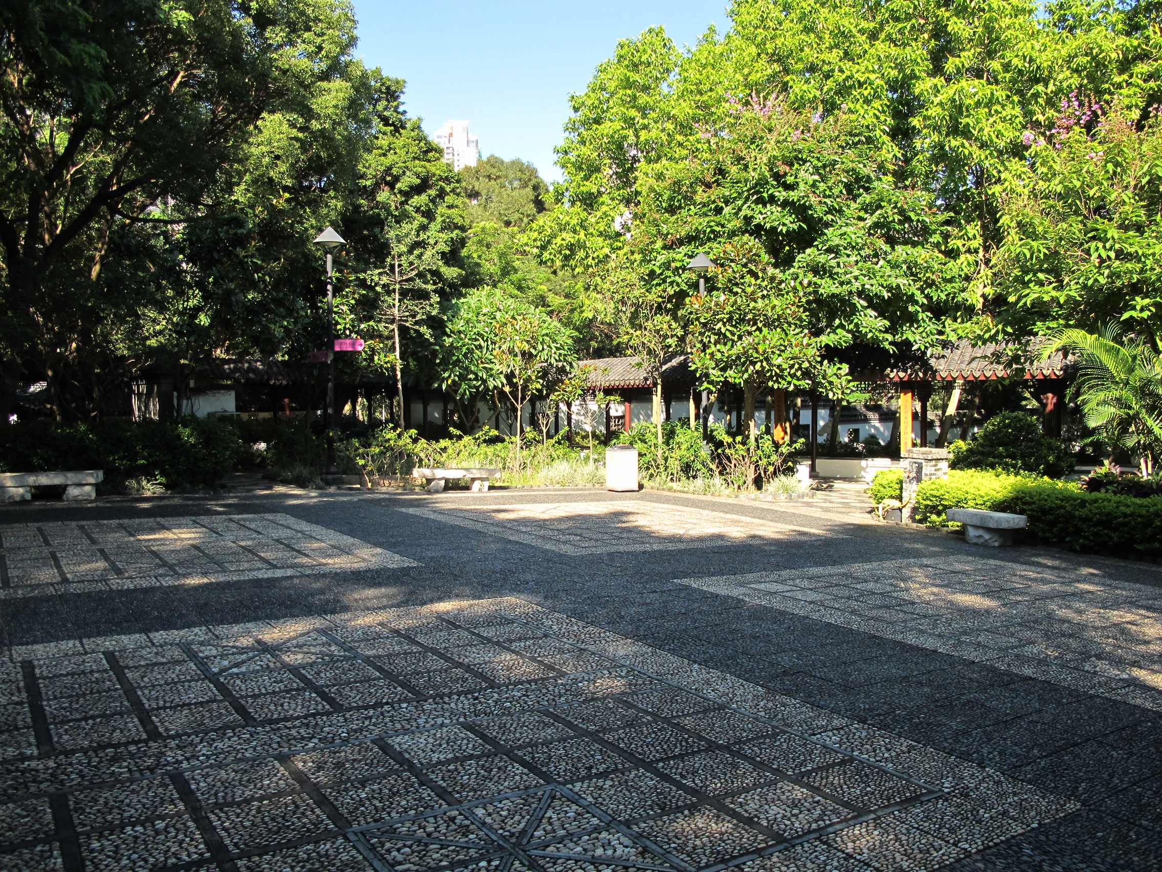 Kowloon Walled City Park The Chess Garden